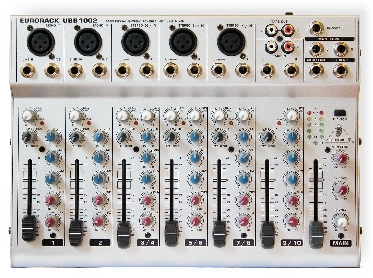 Behringer UBB1002 mixer. Picture created October 16 2006.